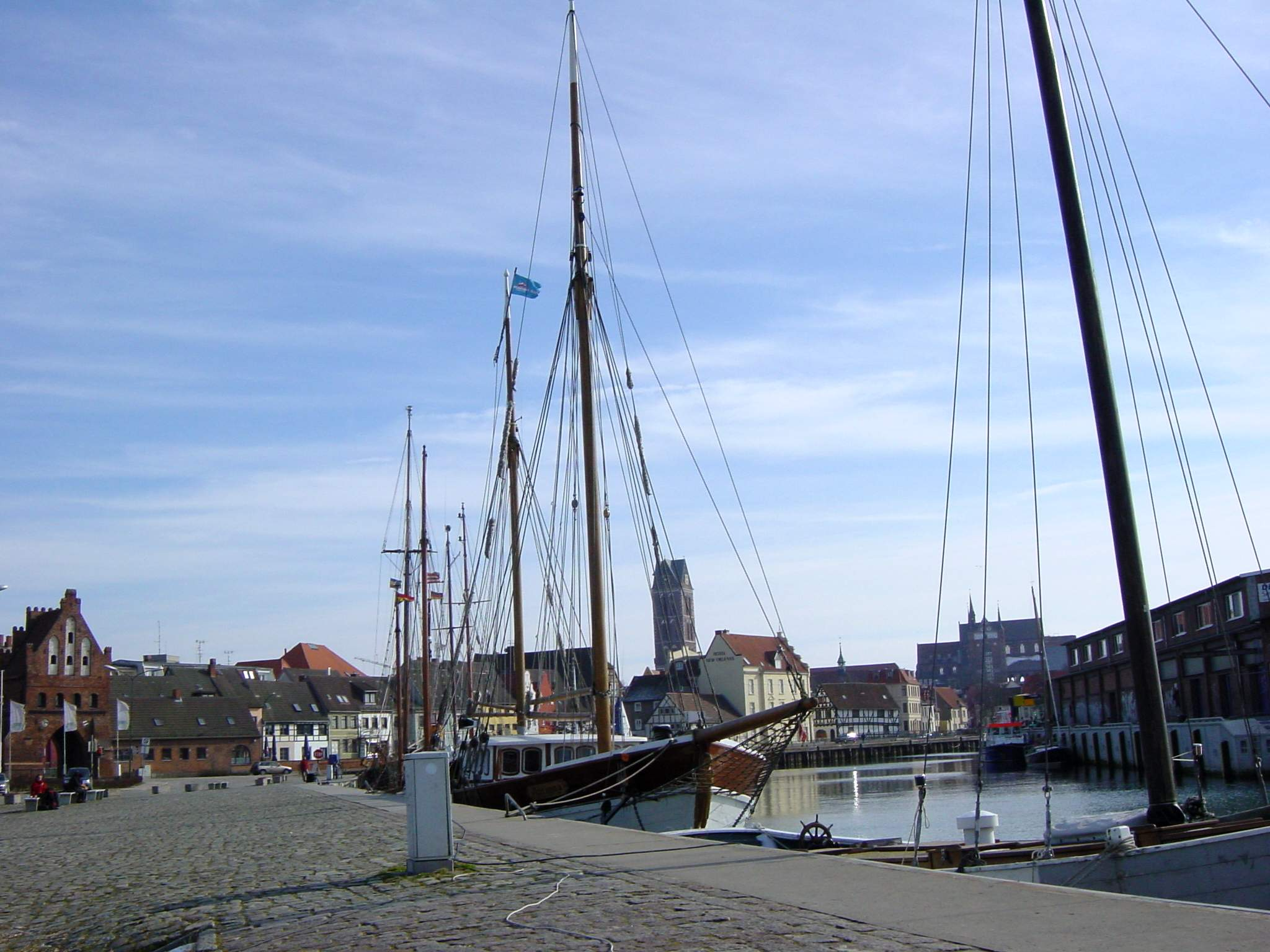 The Old Harbor in Wismar, Mecklenburg-Vorpommern, Germany.